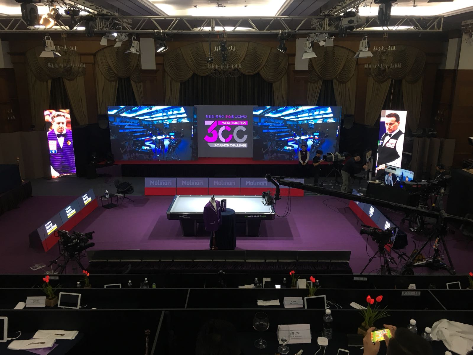 see file name, categories